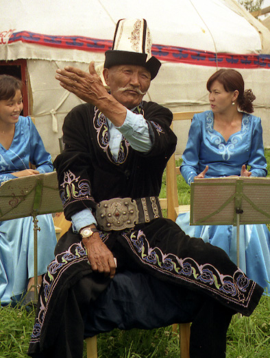 A scan from a 35mm photograph which I took at Karakol in Kyrgyzstan in July 2002. The central figure is a "Manaschi", a traditional storyteller who has memorised the entire Manas epic legend. This scan is in the Public Domain (however, I retain ownership and copyright of the original transparency and any higher-resolution scans derived from it). SiGarb 00:07, 16 November 2005 (UTC)